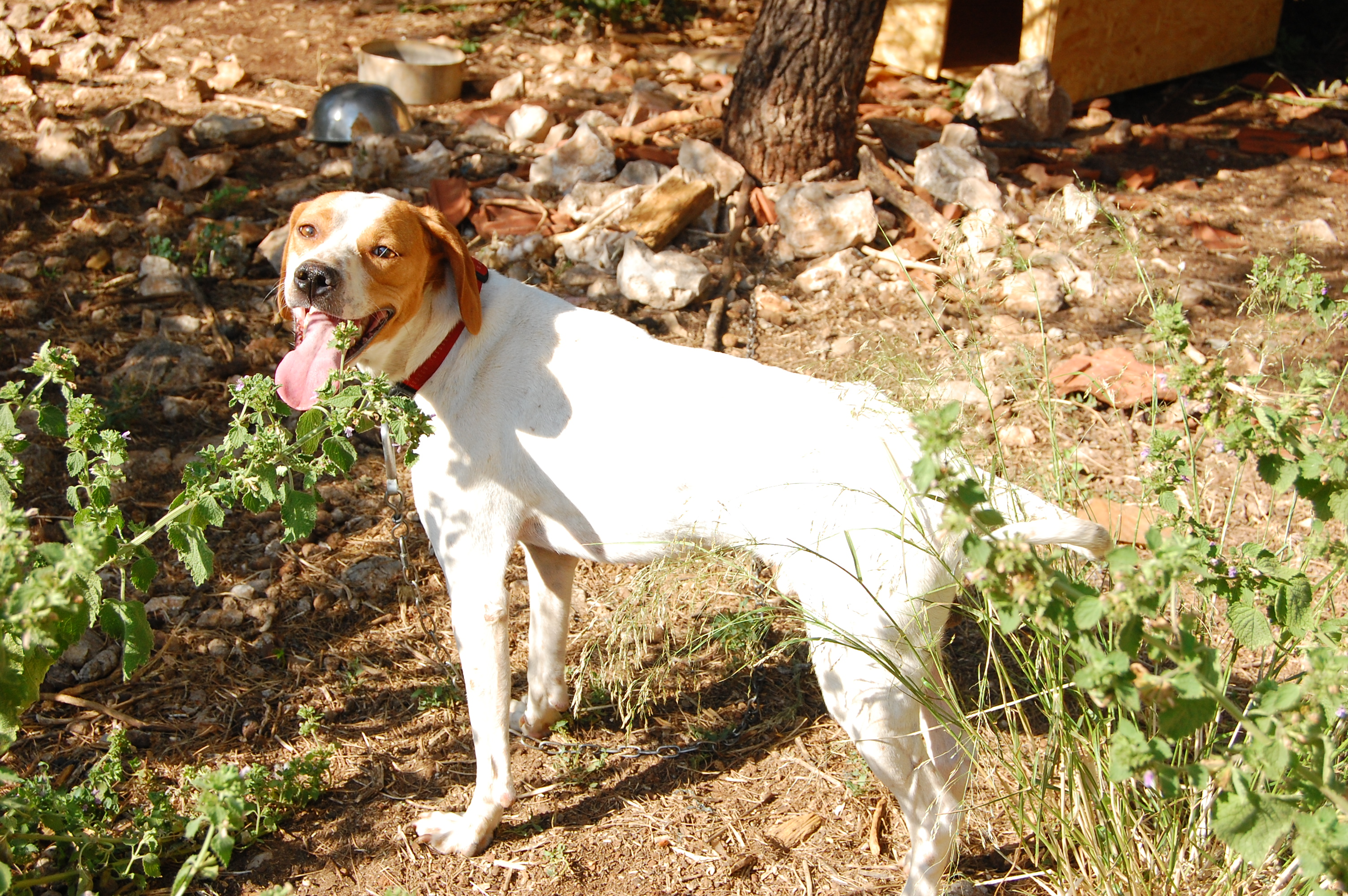 Istrian Shorthaired Hound Luri in a dog shelter in Zadar. When the photo was taken, he was underweight.